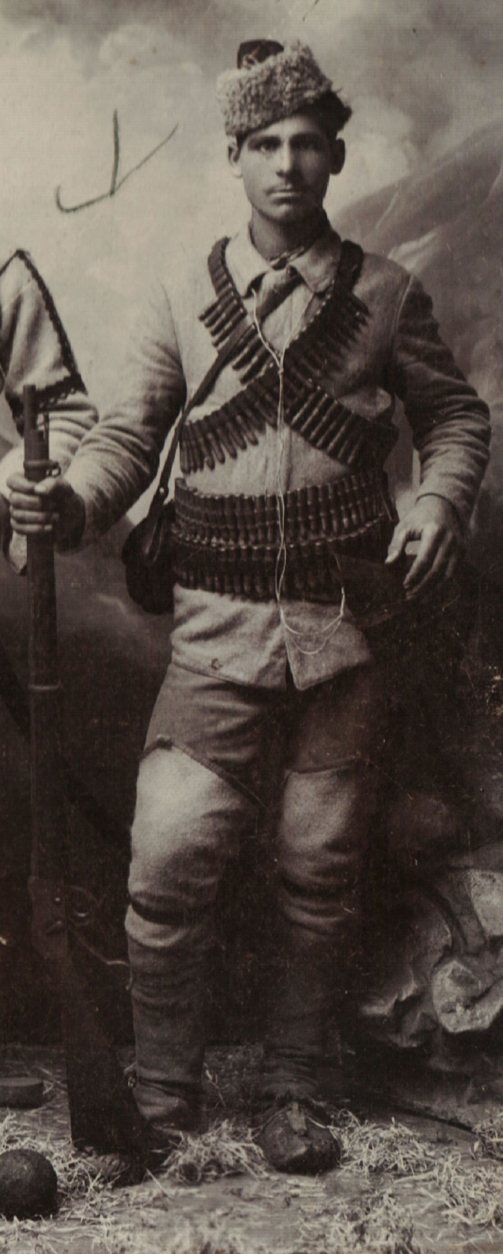 Atanas Ivanov and Iliya Rusev